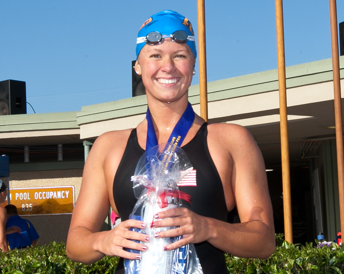 Elizabeth Beisel at the 2011 Santa Clara Invitational. Contact JD Lasica for re-publication rights at .